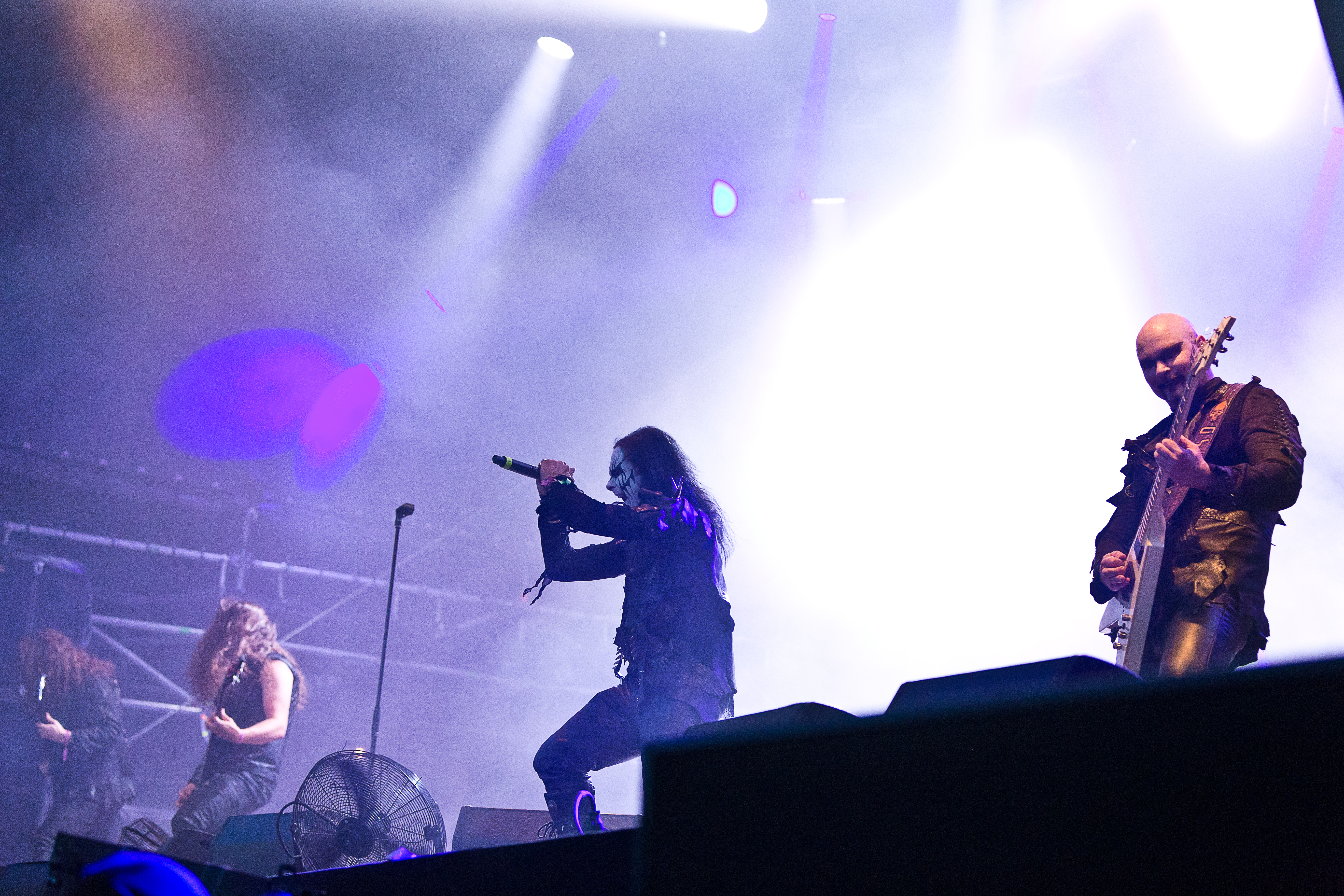 The British metal band Cradle of Filth at the Rockharz Open Air 2015 in Ballenstedt/Germany.